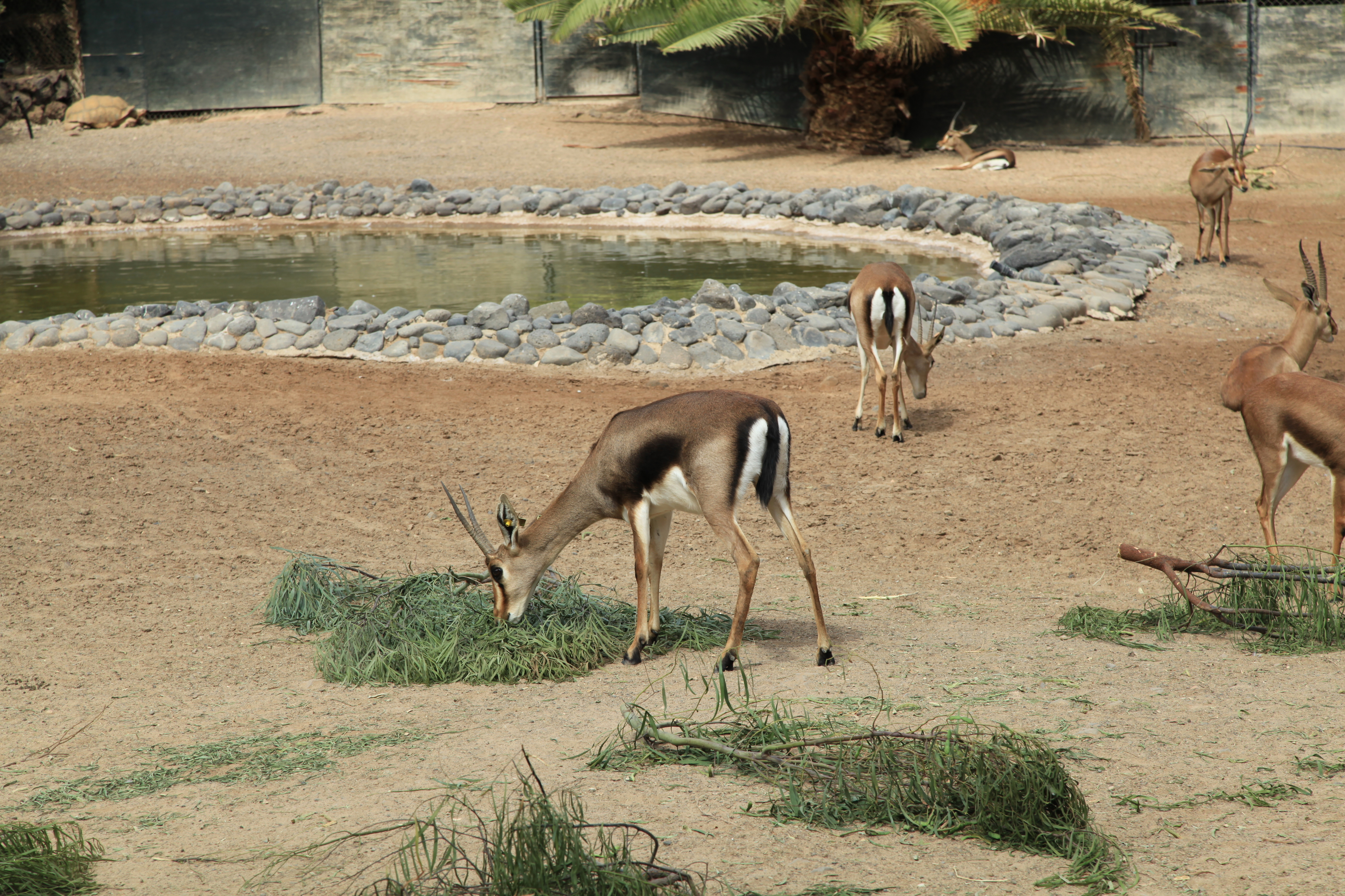 Gazella cuvieri in the Oasis Park in La Lajita, Pájara, Fuerteventura, Canary Islands